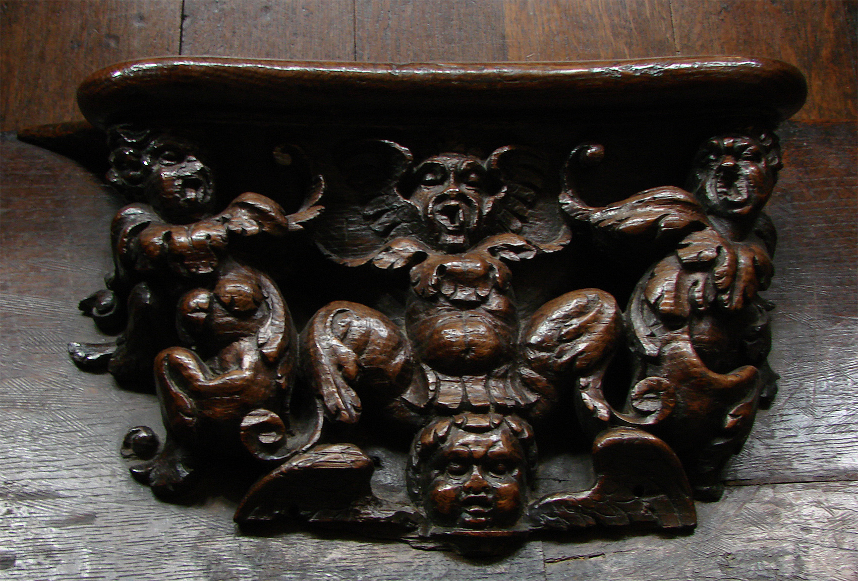 Cathedral Sainte-Marie, Auch. The choir. Oak wood stalls (between 1510 and 1552).